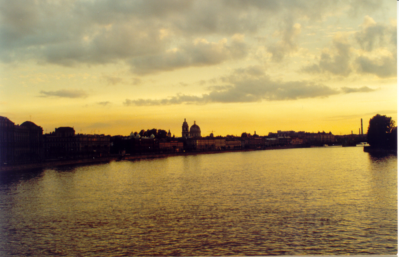 Saint Petersburg,Russia-Waterfront at midnight during White Nights 5